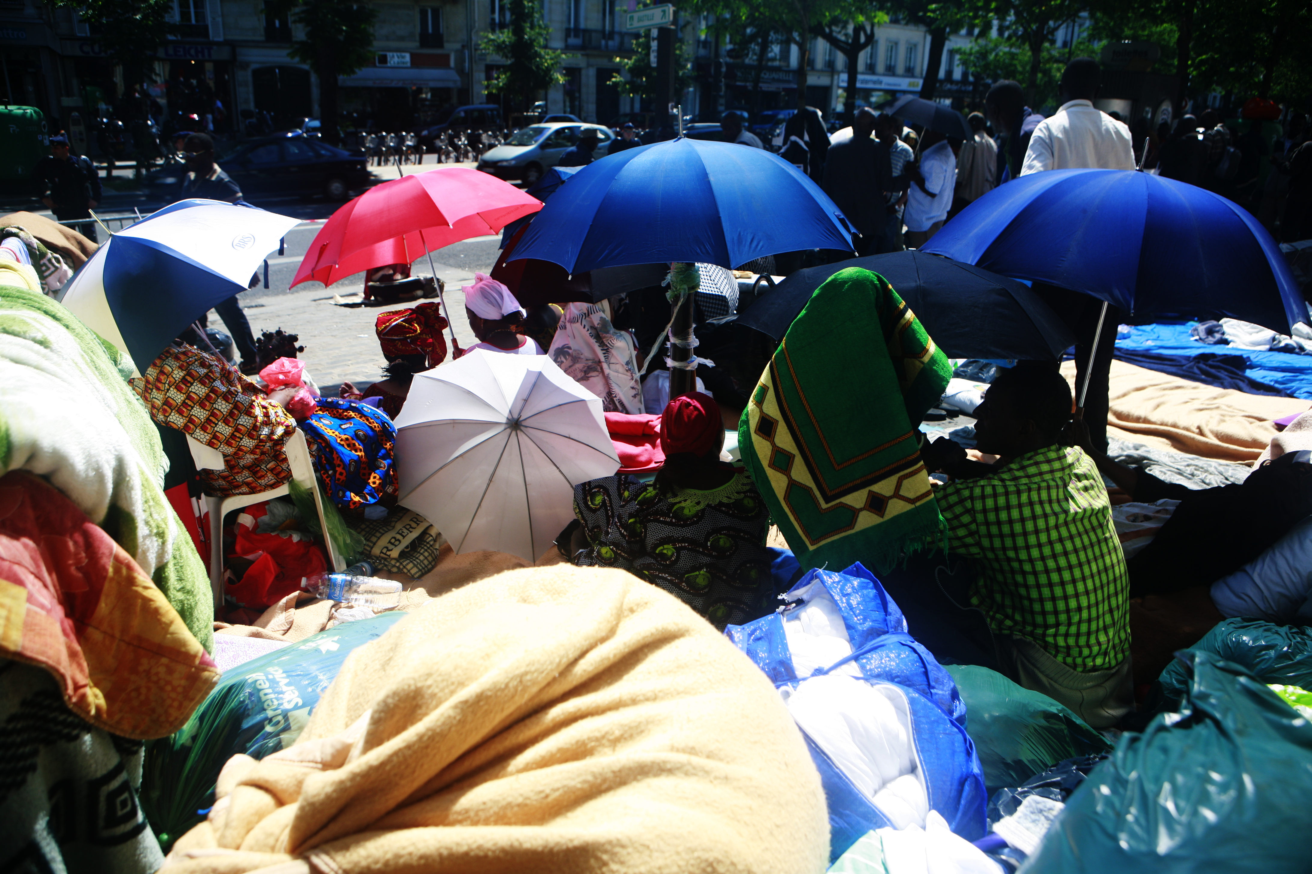 Illegal immigrants protesting at the Bourse du Travail in Paris